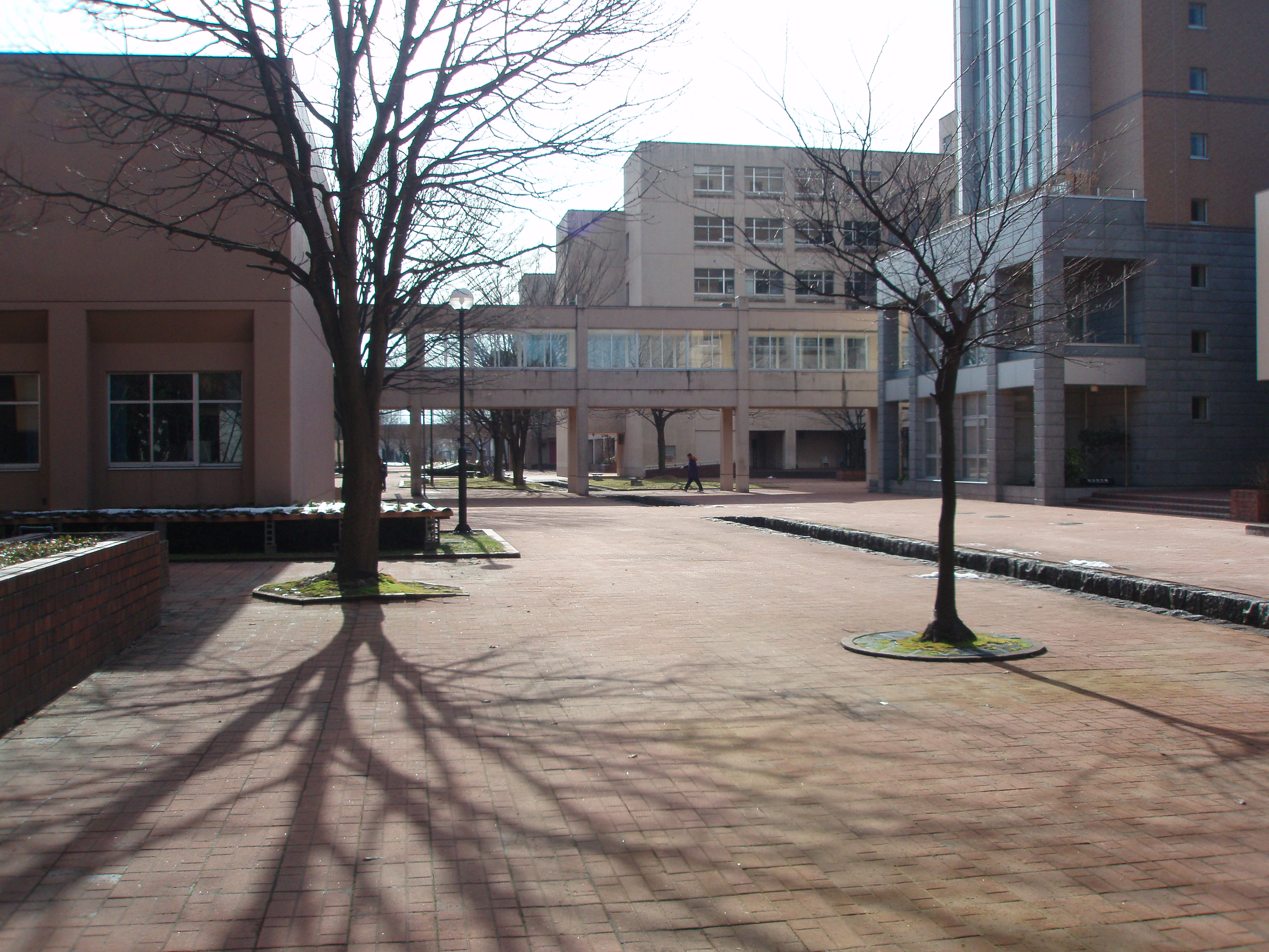 Nagaoka University of Technology, (Japanese: 長岡技術科学大学) also known as NUT and Nagaoka Gidai [技大], is an engineering university located in Nagaoka, Niigata, Japan.